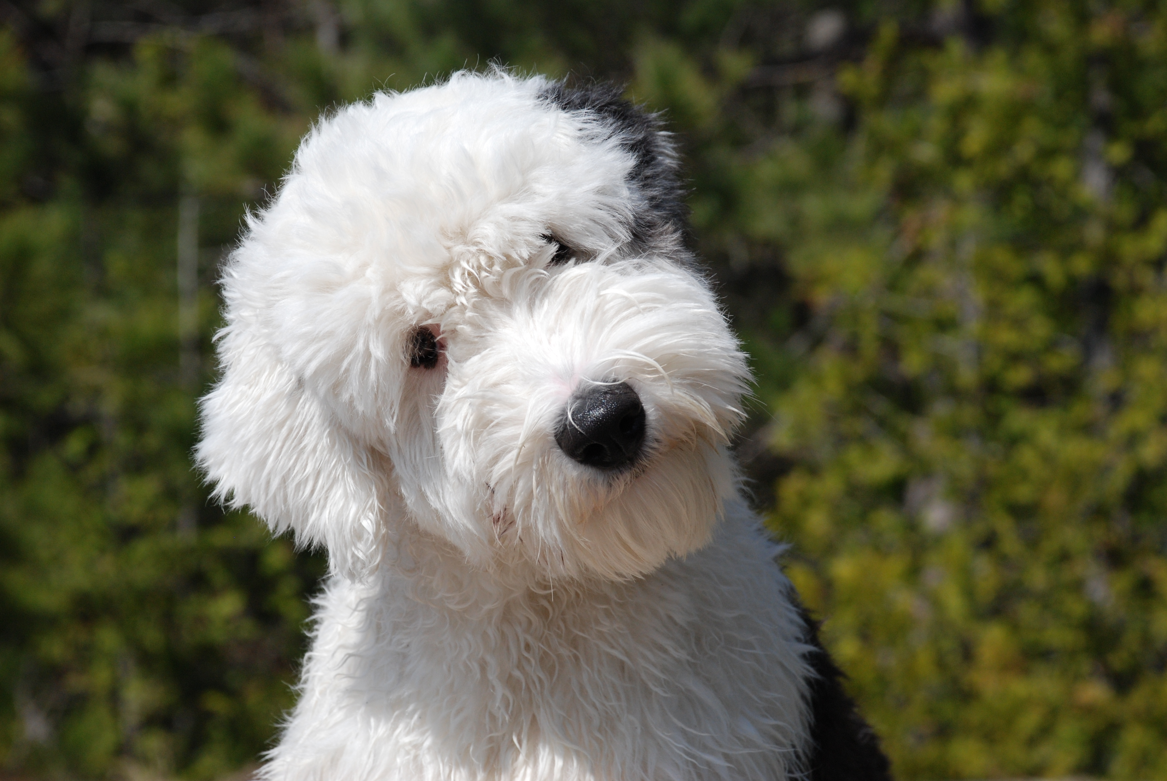 Picture of an Old English Sheep Dog. Photographer, Meredith Bannan